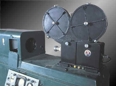 A kinescope at the Canada Museum of Science & Technology in Ottawa